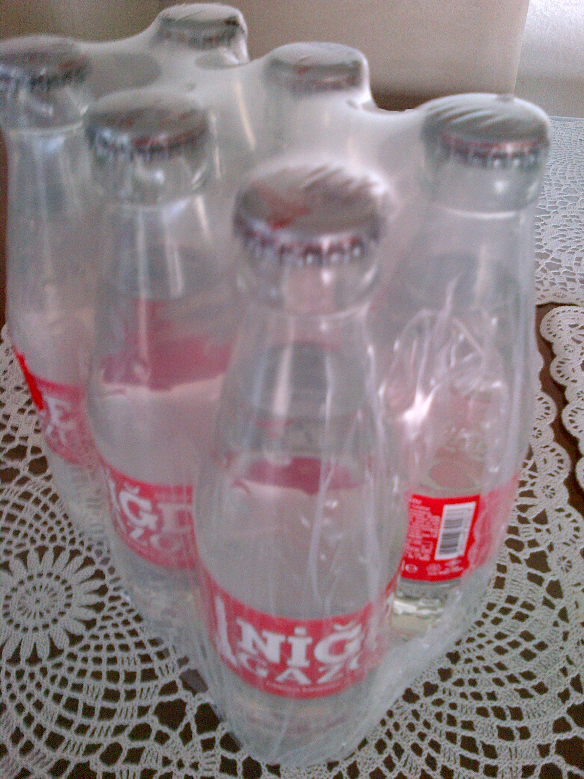 A sixpack of "Niğde gazozu (a traditional Turkish soda from NJiğde province).